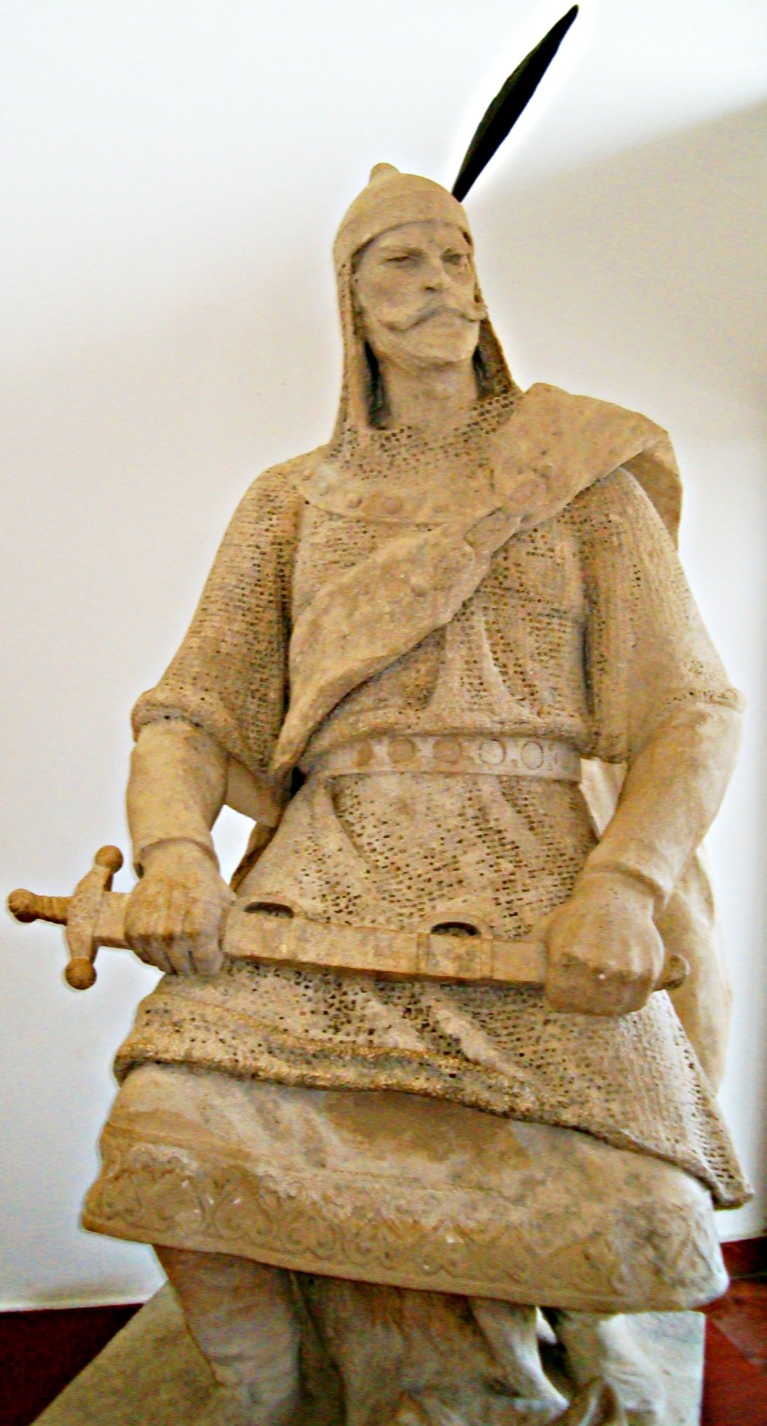 Statue of Árpád. National Historical Memorial Park in Ópusztaszer, Hungary